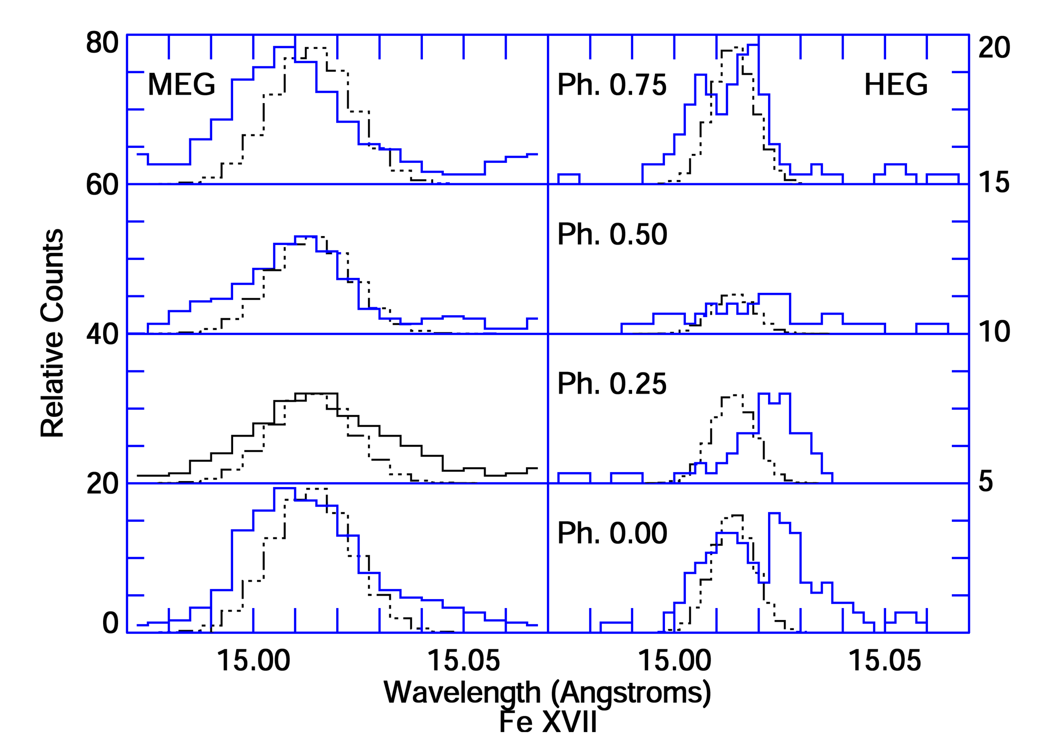 Spectra of iron lines in 44i Bootis taken by Chandra X-ray Observatory